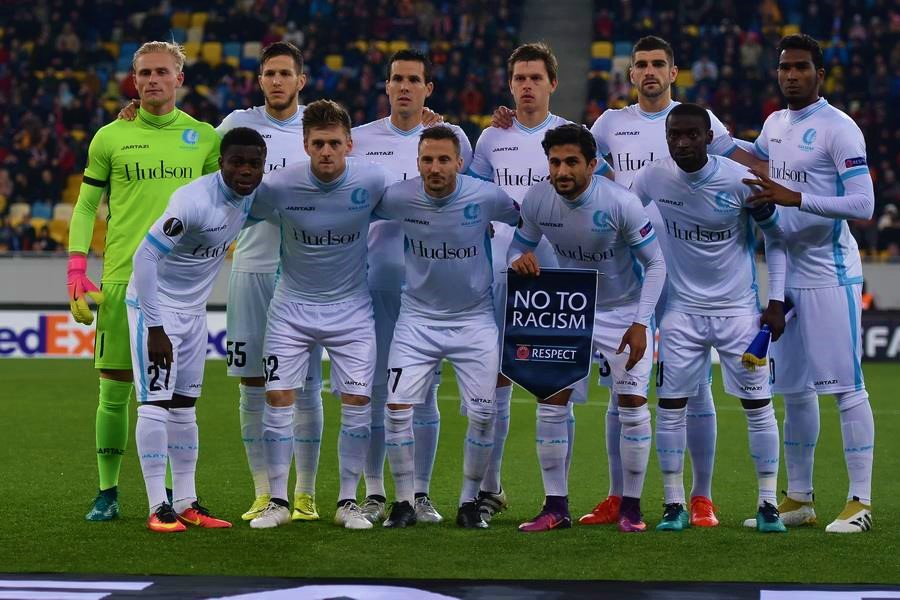 AA Gent 2016